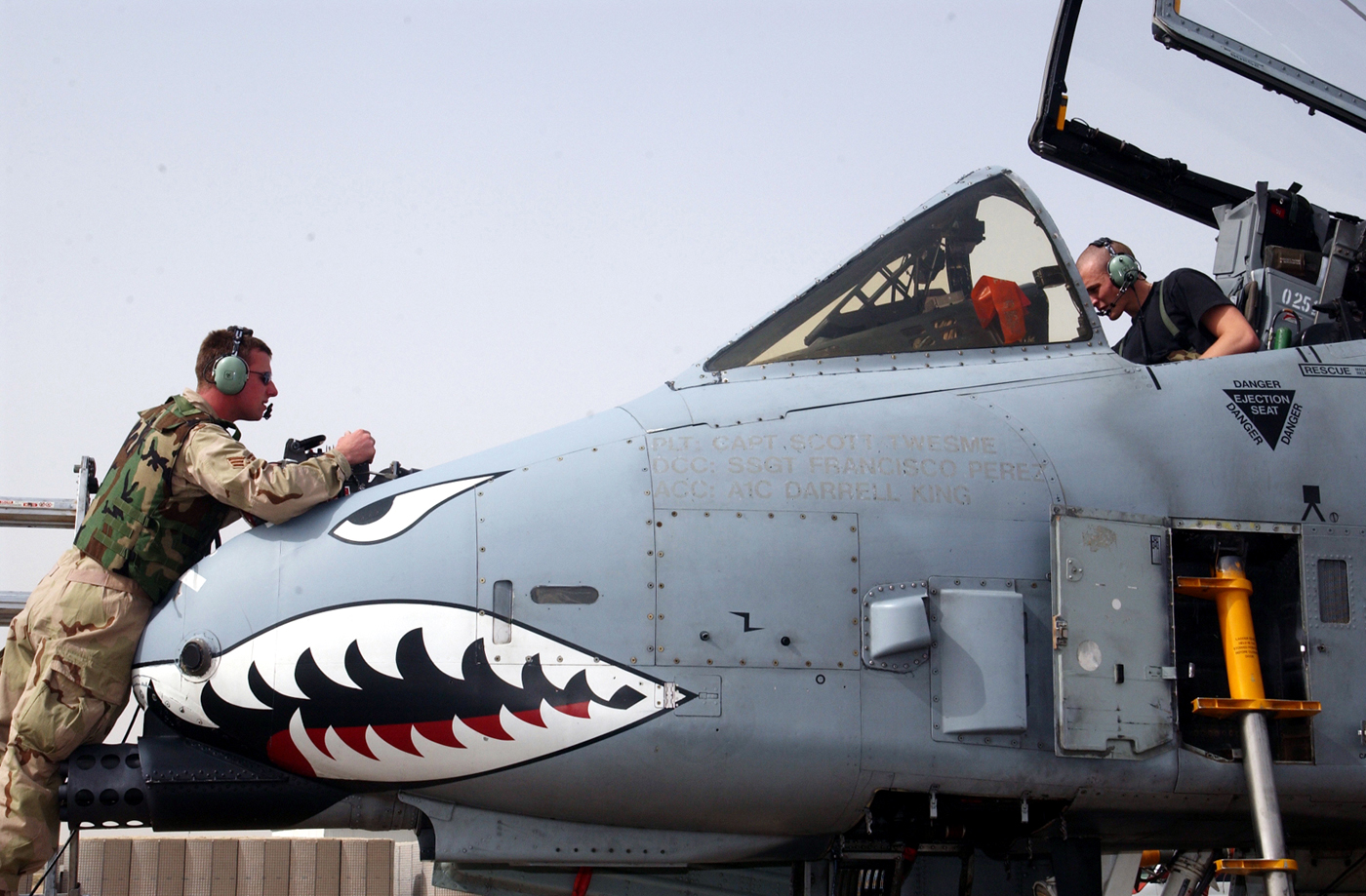 U.S. Air Force Senior Airman Jay Labrum, 124th Maintenance Squadron from the Idaho Air National Guard, performs an operational check on an inflight refueling receptacle on the nose of an Fairchild A-10 Thunderbolt II at a desert air base in the Arabian Gulf Region. Airman 1st Class Kyle Austin, 43rd Maintenance Squadron from Pope Air Force Base, monitors from the cockpit. Operation Iraqi Freedom is the multinational coalition effort to liberate the Iraqi people, eliminate Iraq's weapons of mass destruction and end the regime of Saddam Hussein.